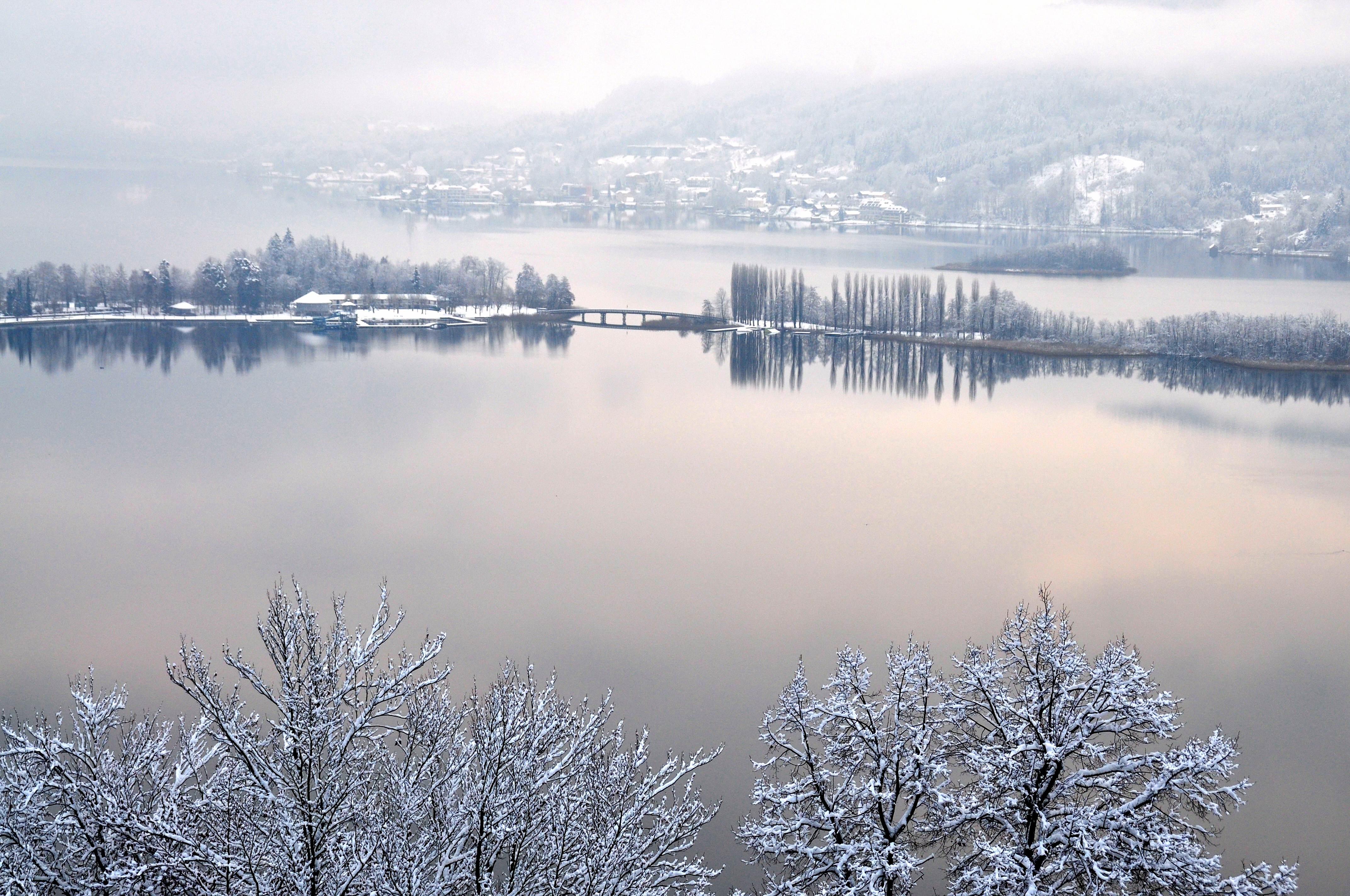 View from the Hohe Gloriette of the peninsula, Blumeninsel and Kapuzinerinsel, municipality Pörtschach am Wörther See, district Klagenfurt Land, Carinthia, Austria, EU